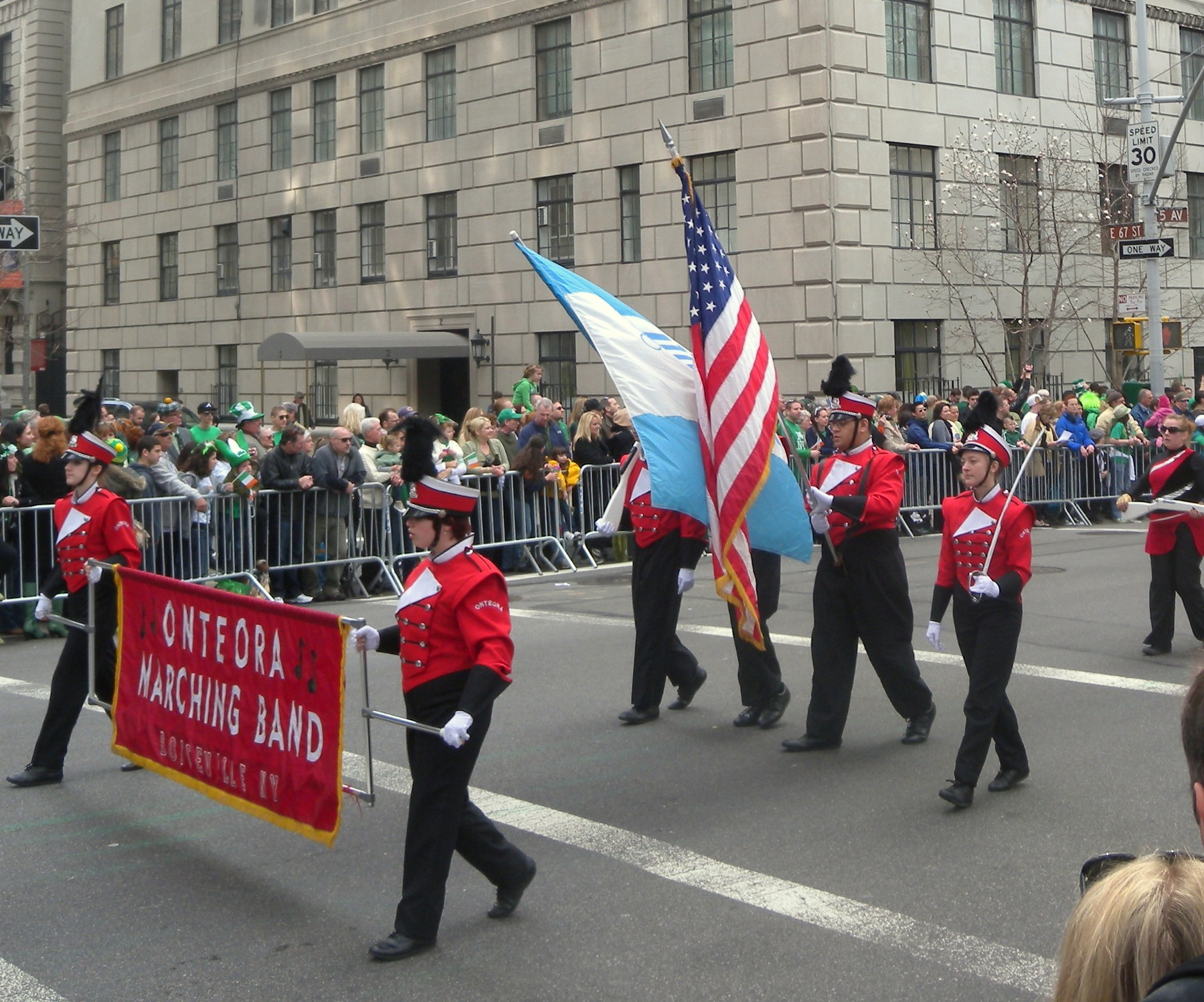 Onteora High crossing 67th Street